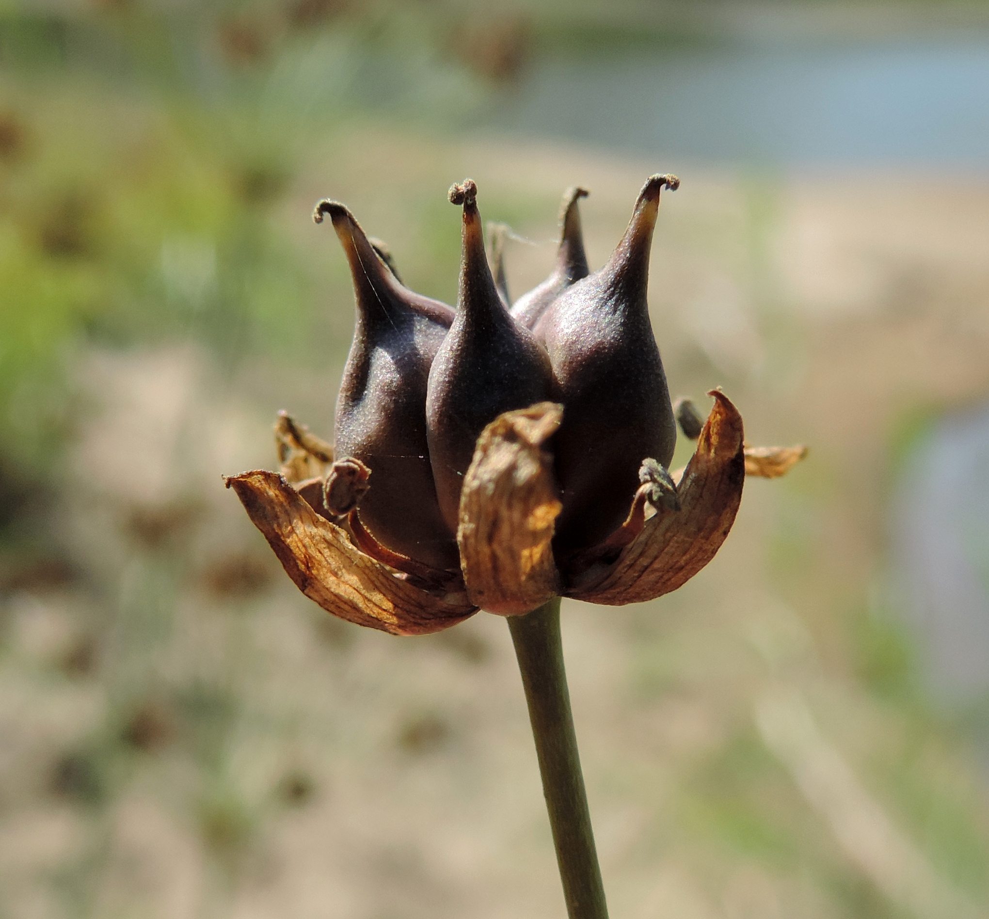 Butomus umbellatus. Czerwieńsk on Odra river, W Poland